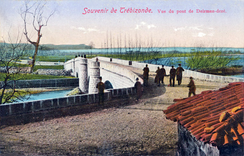 Postcard of bridge in Trebizond (Trabzon, Turkey)